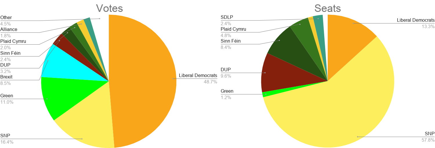 2019 General election votes vs seats without Conservatives & Labour. Data from Wikipedia page on GE. Created using Google Sheets.